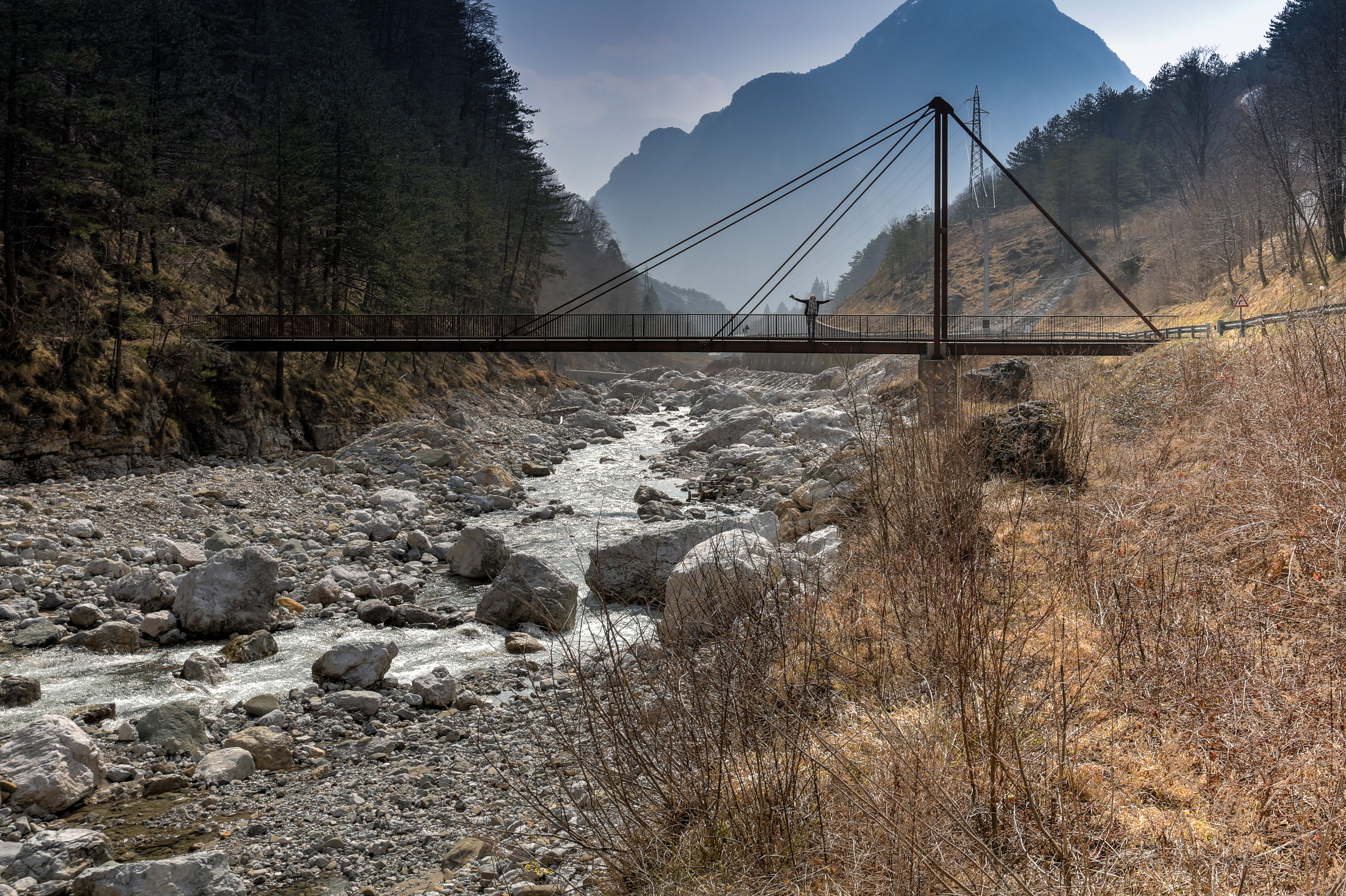 Suspension bridge at the beginning of the footpath to Dordolla and Drentus in the Val d'Aupa in the Carnic Alps, community Moggio Udinese / Friuli-Venezia Giulia / Italy / EU. View towards the south.